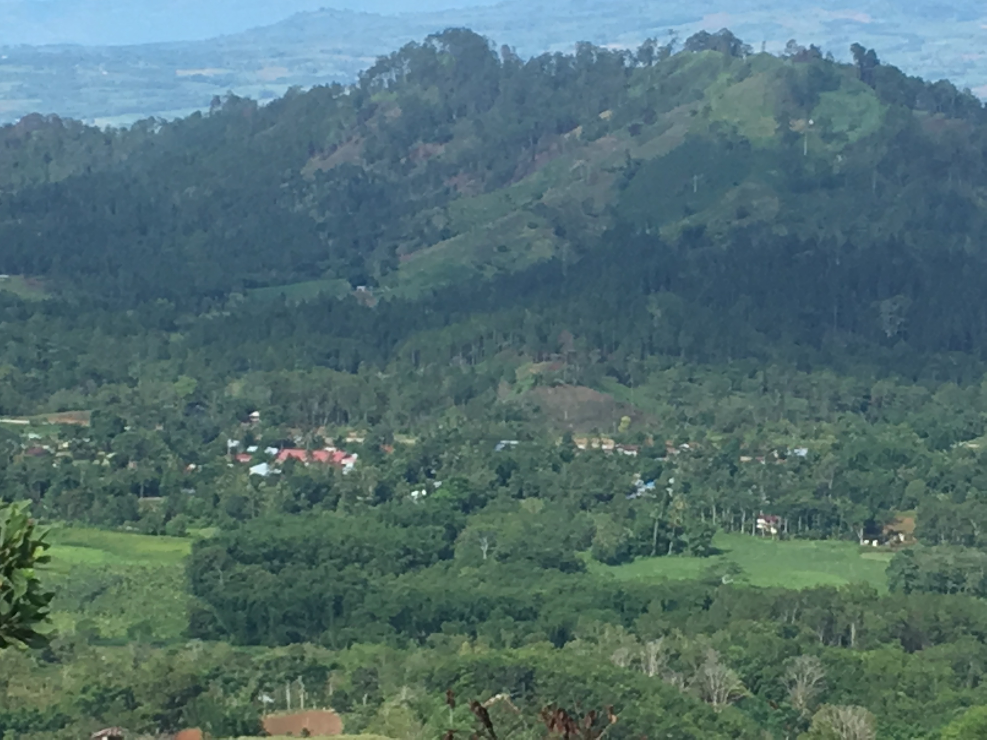 View of the village of Can-ayan as seen from Big Rock